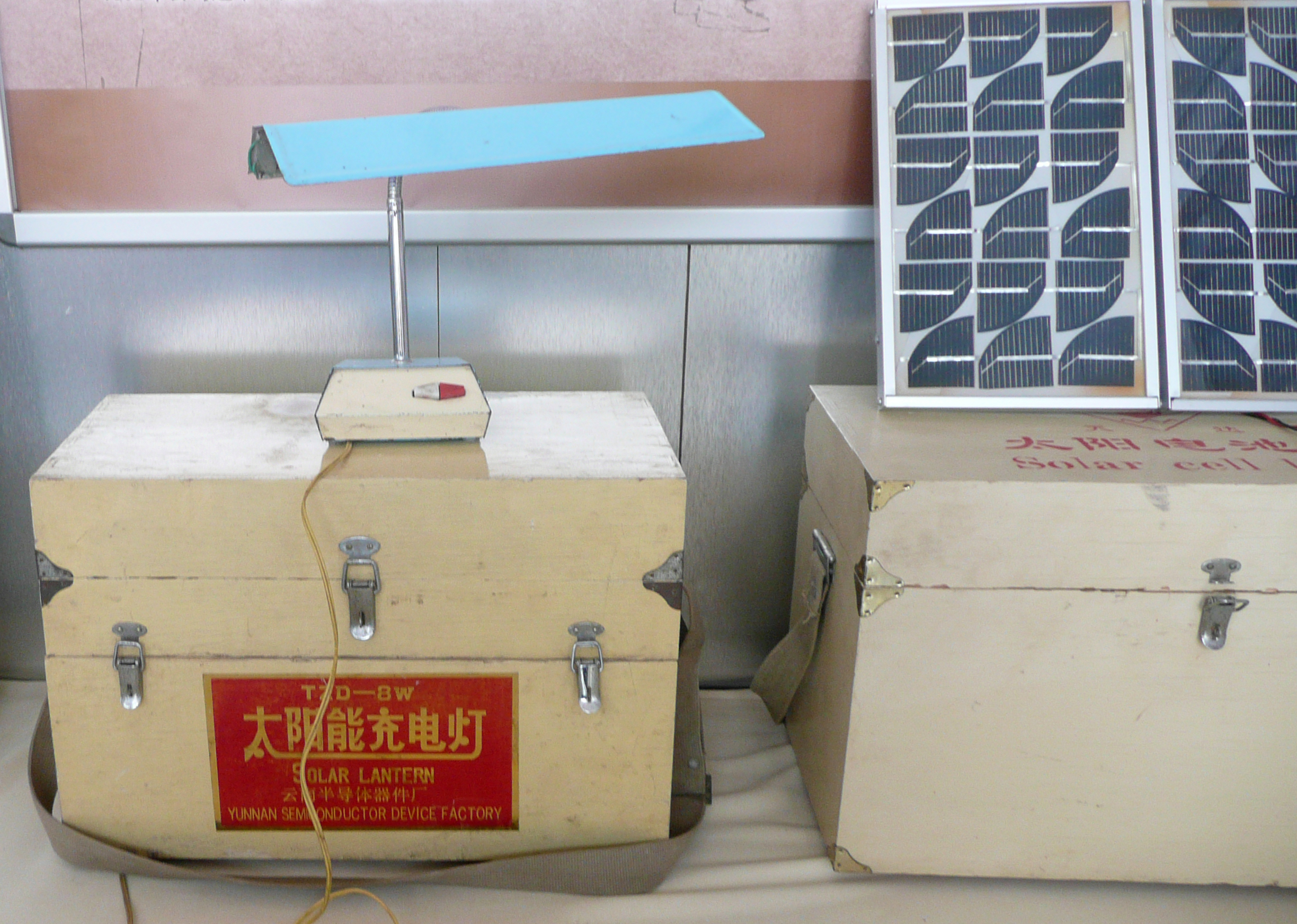 Solar Lantern of the Yunnan Tianda Photovoltaic Co, Ltd. in Kunming (Yunnan), produced in the 1980s